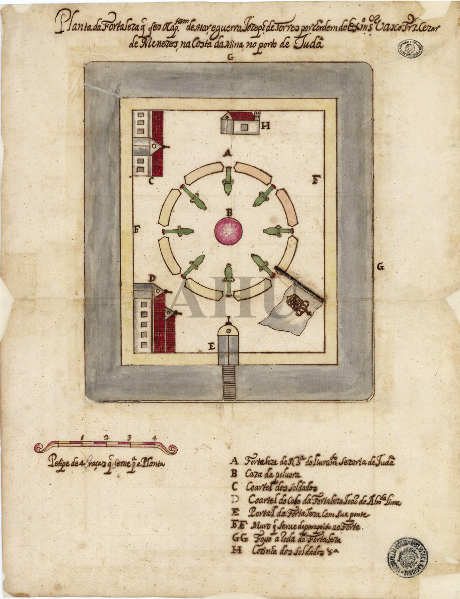 Plan of the projected Fort São João Baptista de Ajudá (Ouidah, Benin), drawn at the end of 1721 by Joseph de Torres (José Torres) who built the fort in November 1721. He placed the fort under the protection of Our Lady of Deliverance (Nossa Senhora do Livramento) and named it Cesarea in honour the the viceroy of Brazil, Vasco Fernandez Cesar, who had authorized the creation of the fort. The fort soon became known by the name of the saint for whom its chapel was dedicated: Saint John the Baptist (São João Baptista).